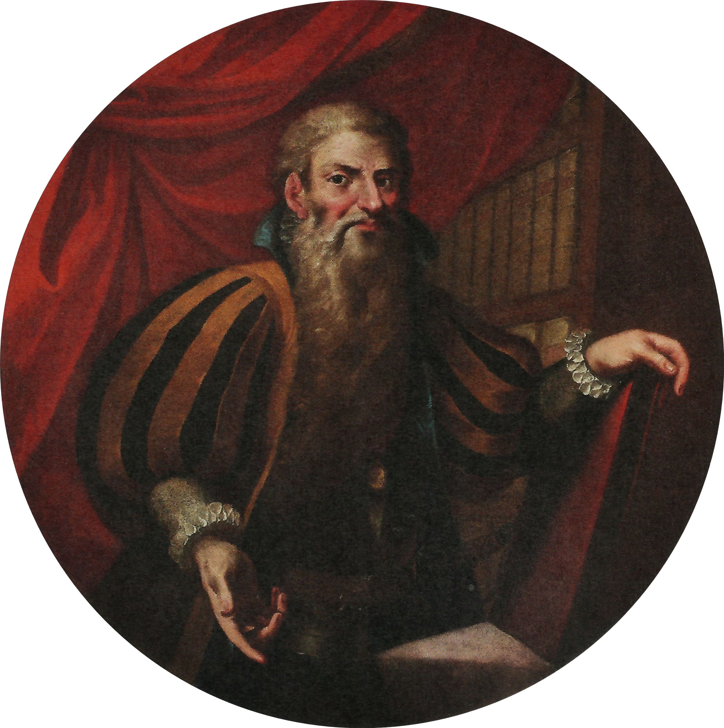 Portrait of Francisco Rodrigues de Sá e Meneses, 1st Count of Matosinhos (c. 1750). Private collection of Maria da Conceição de Lencastre e Távora.